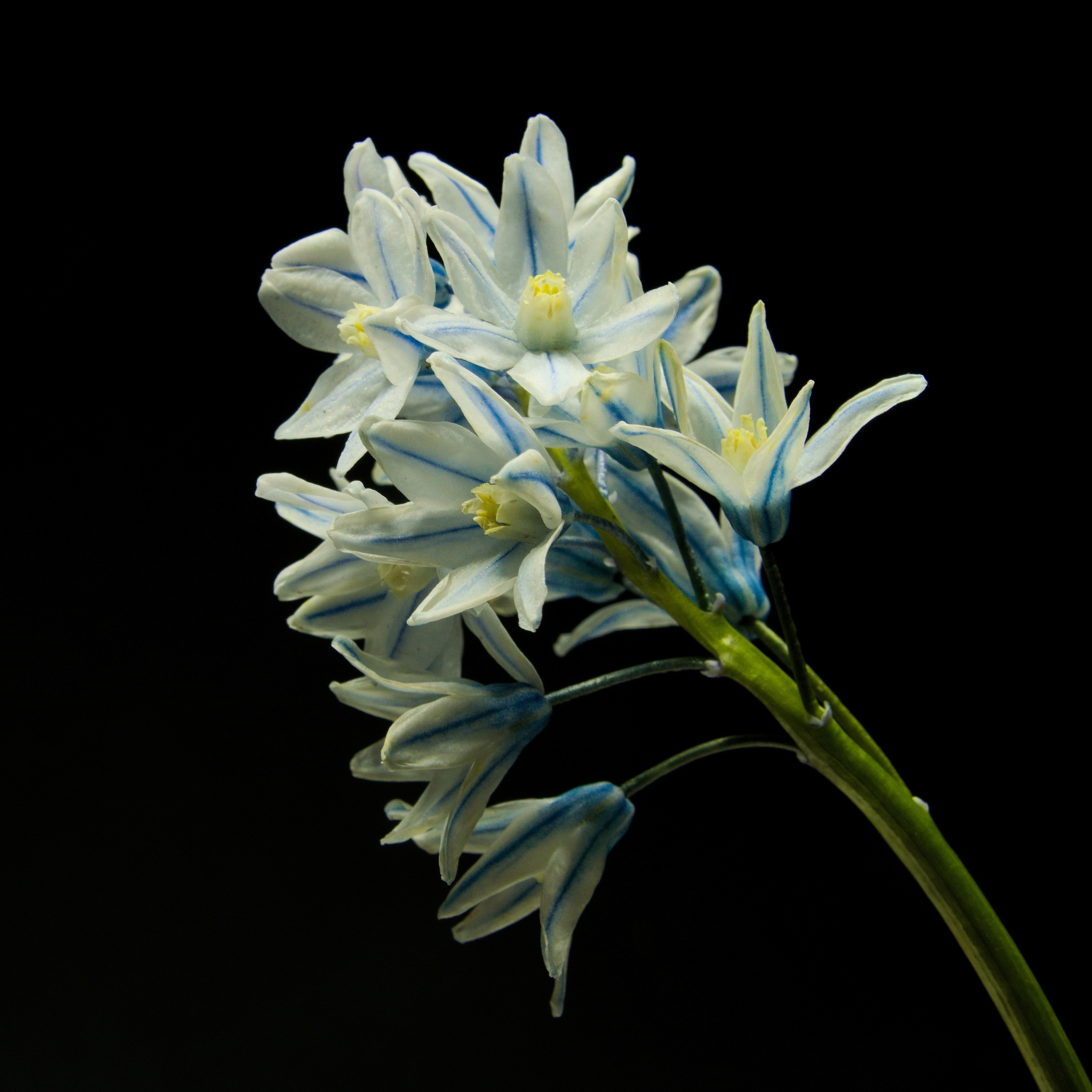 Puschkinia scilloides Adams Inflorescence of cultivated Puschkinia scilloides (diameter of flowers is from 1.5 to 2 cm). Moscow region, Russia.